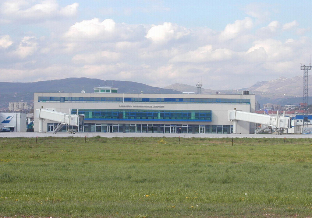 Terminal building at Sarajevo International Airport